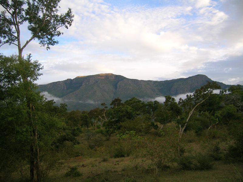 Mudumalai National Park at the foothills of Nilgiris